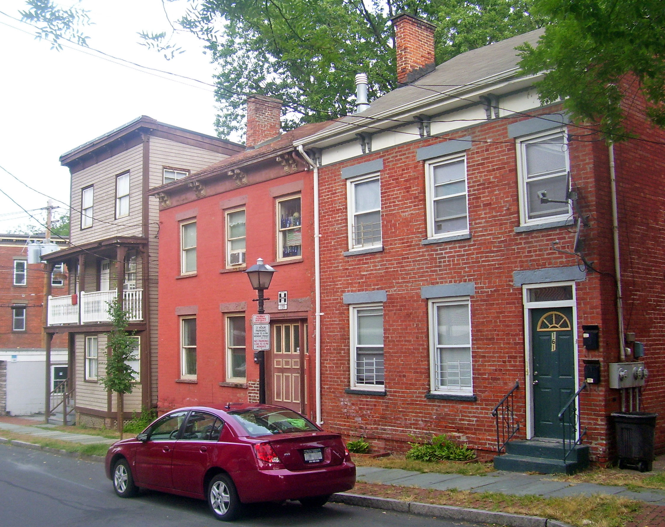 Union Street, Poughkeepsie, NY, USA. Vehicle license plate blurred to protect owner's privacy